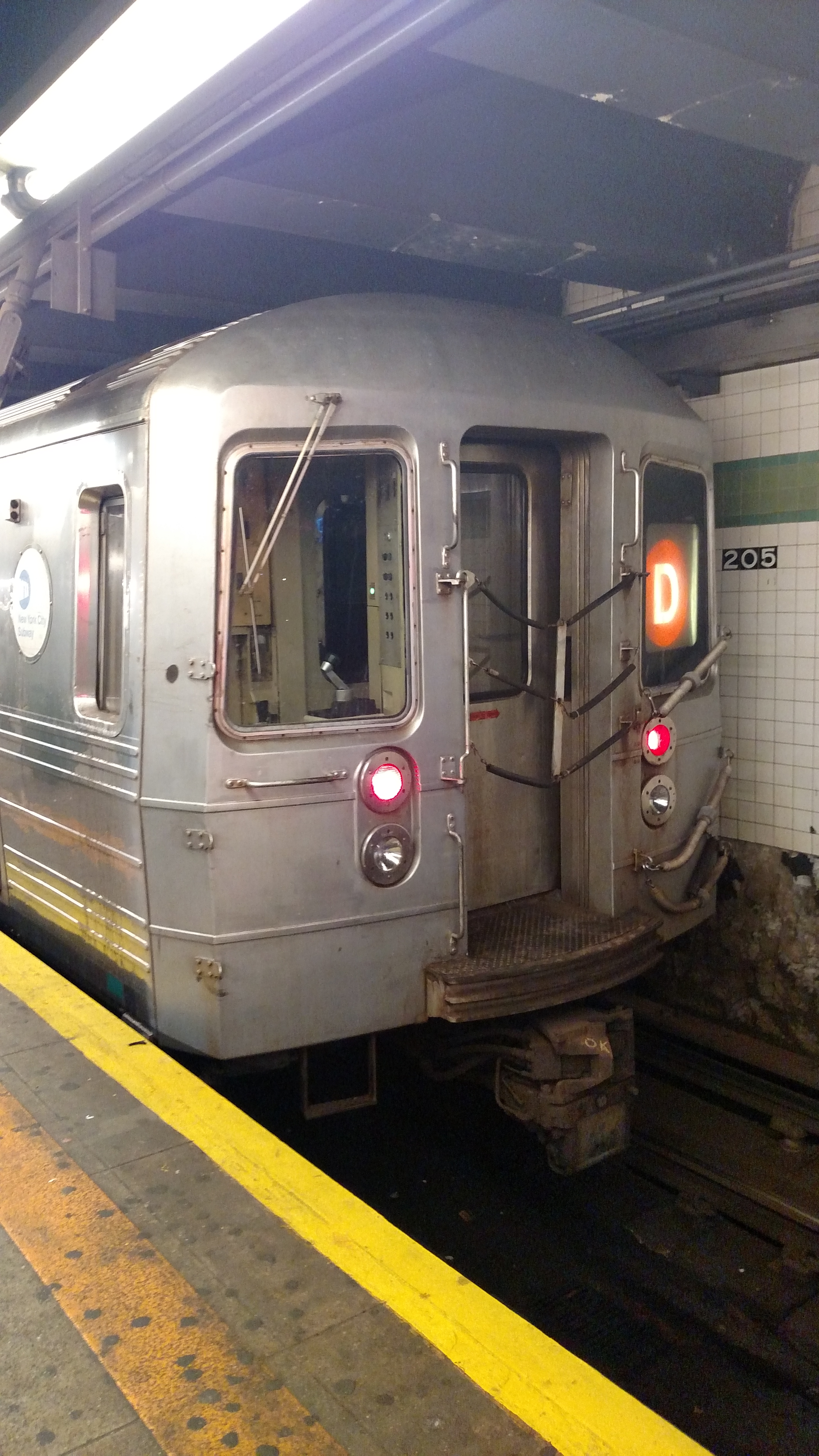 Found items